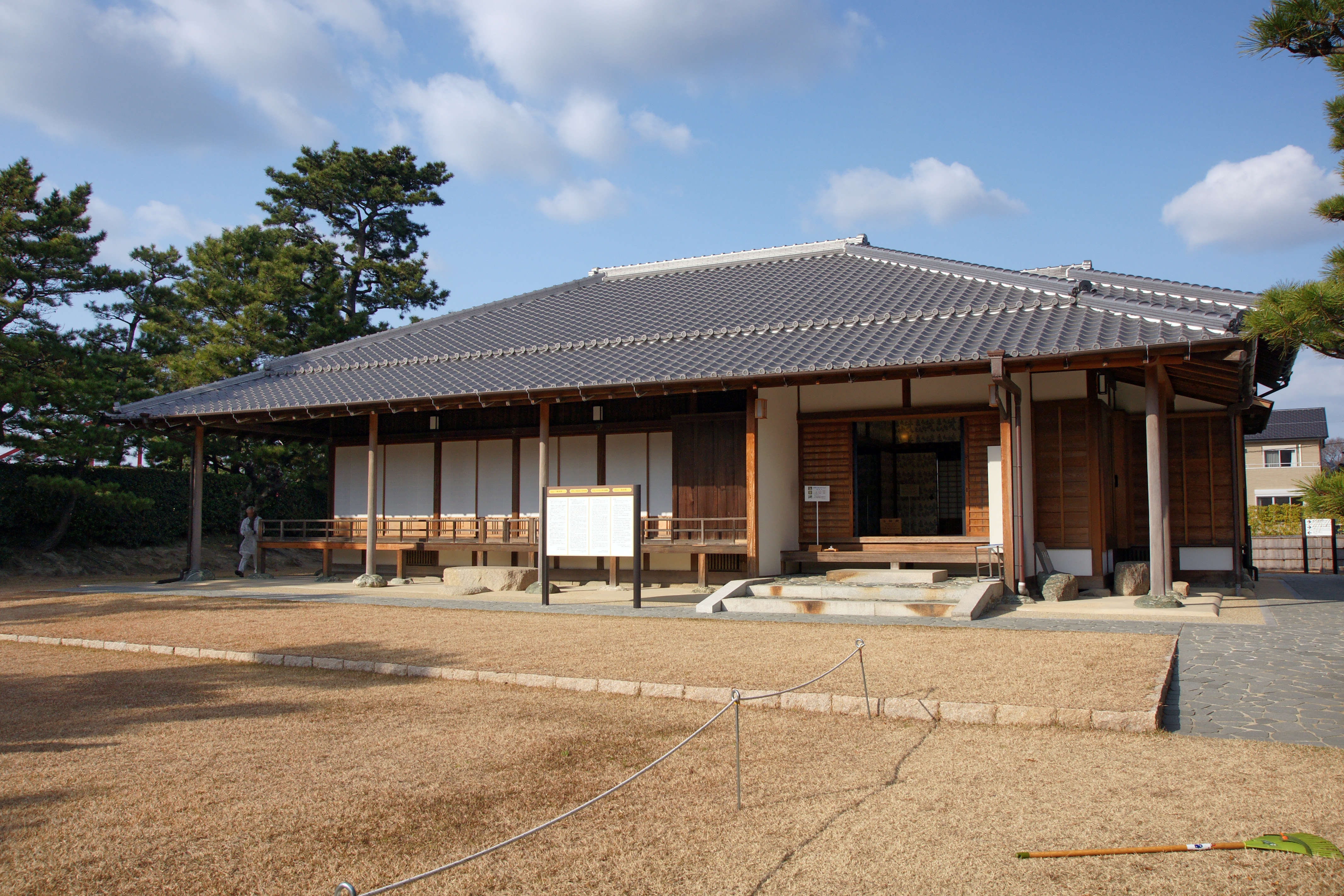 Yosuien, Wakayama, Wakayama prefecture, Japan